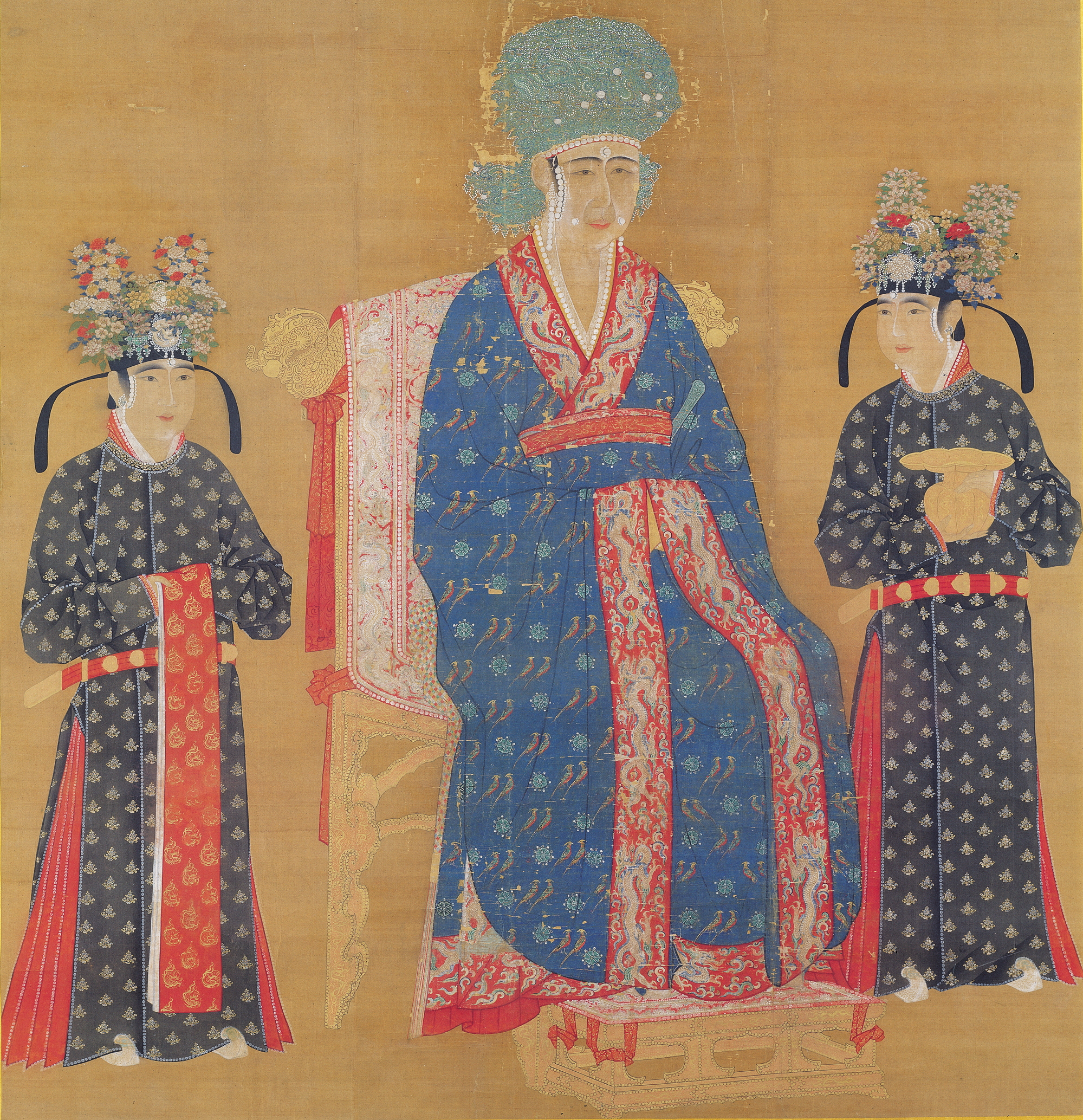 A painting depicting Empress Cisheng Guangxian (慈聖光獻), née Cao (曹), of Emperor Renzong of Song